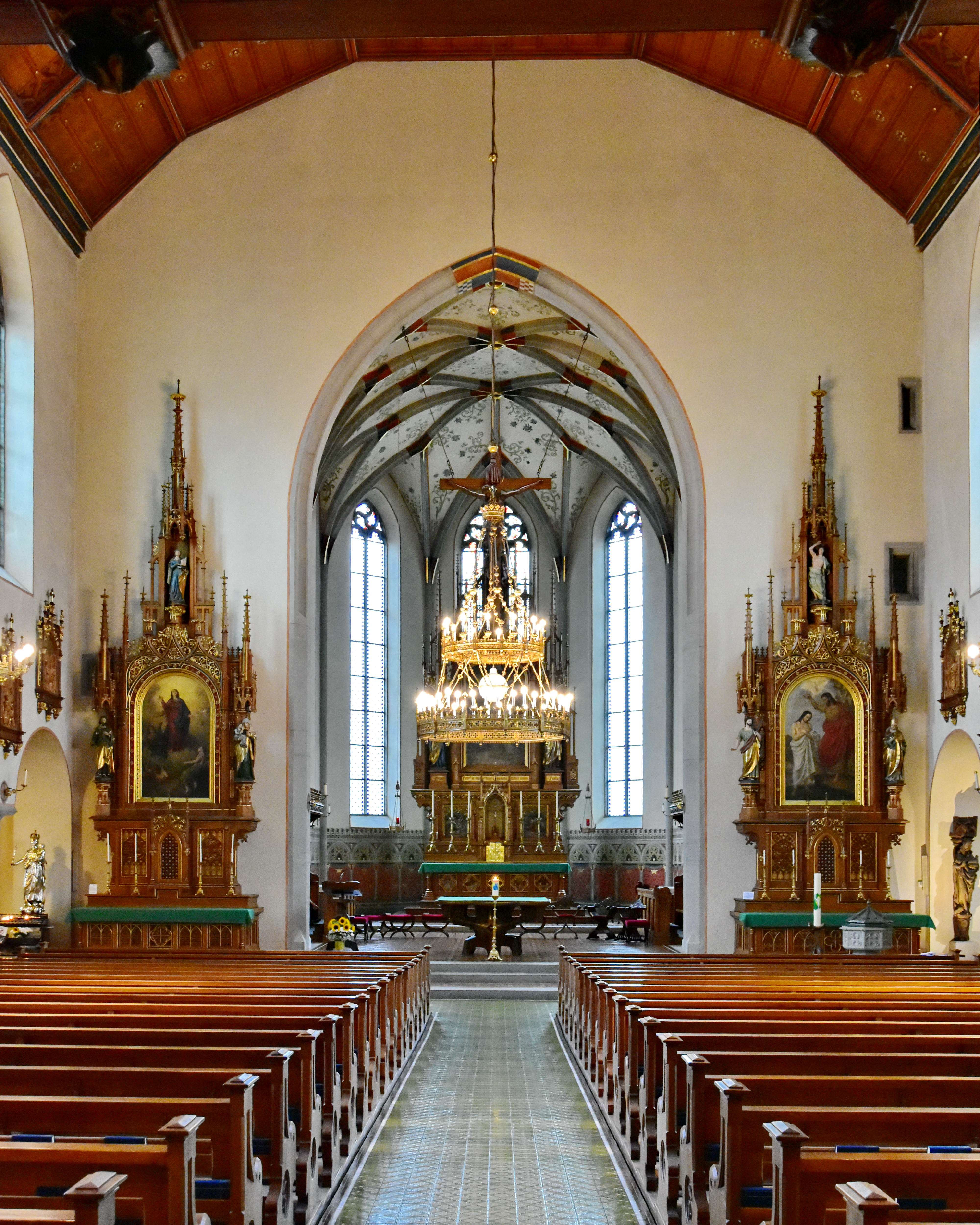 Rapperswil (Switzerland) : Stadtpfarrkiche St. Johann (S. John's church).